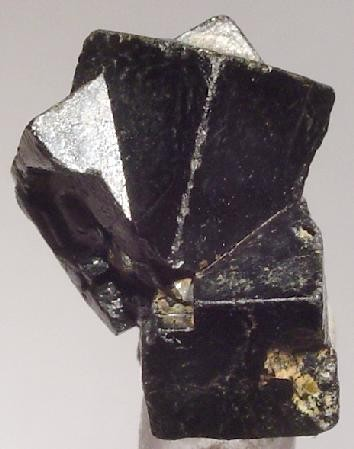 Thorianite Locality: Ambatofotsy pegmatite, Mahavelona Commune, Soavinandriana District, Itasy Region, Antananarivo Province, Madagascar (Locality at ) A very aesthetic cluster of four, lustrous, black, interpenetrating twinned thorite crystals from Ambatofotsy, Madagascar. All of the crystals are undamaged. This is of SUPERB quality. 1.6 x 1.4 x 1.3 cm [NOTE: The locality of this specimen has been questioned